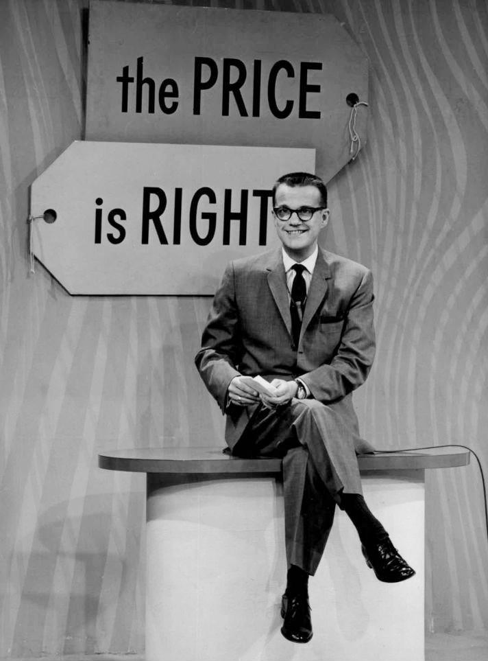 Photo of Bill Cullen as the host of The Price Is Right. Cullen was the host of the original version of the television program, which ran from 1956 to 1963.